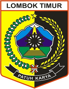 Coat of Arms (Lambang) of Regency (Kabupaten) Lombok Timur (East Lombok), Provinsi Nusa Tenggara Barat (West Lesser Sunda Islands Province), Indonesia